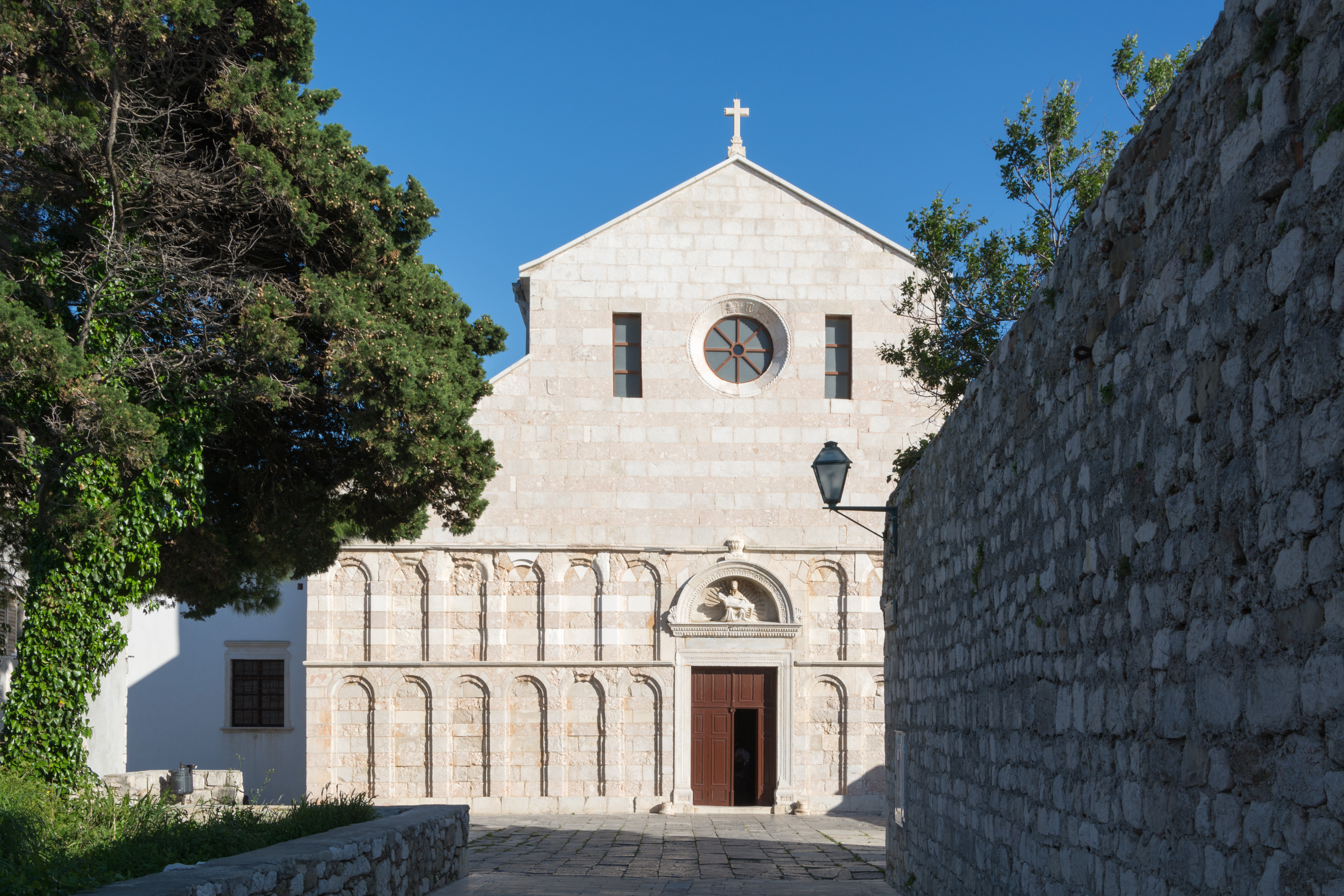 The facade of St. Mary in Rab is made up of the autochthonous stone of Rab (Rapski mandulat).